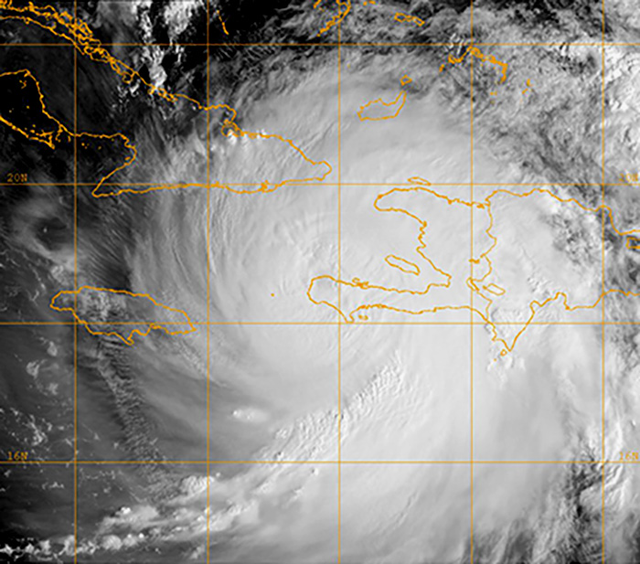 CARIBBEAN SEA (Oct. 4, 2016) A GOES-13 satellite image from the Navy Research Laboratory, Monterey Marine Meteorology Division, of Hurricane Matthew in the Caribbean Sea at 9:00 a.m. Eastern Standard Time. The Category 4 hurricane made landfall on Haiti's Tiburon Peninsula with sustained winds of 150 mph. The National Hurricane Center in Miami expects the storm to make another landfall on the eastern end of Cuba near Guantanamo Bay before threatening the Bahamas. (U.S. Navy photo/Released)161004-N-N0101-001 Join the conversation: navylive.dodlive.mil